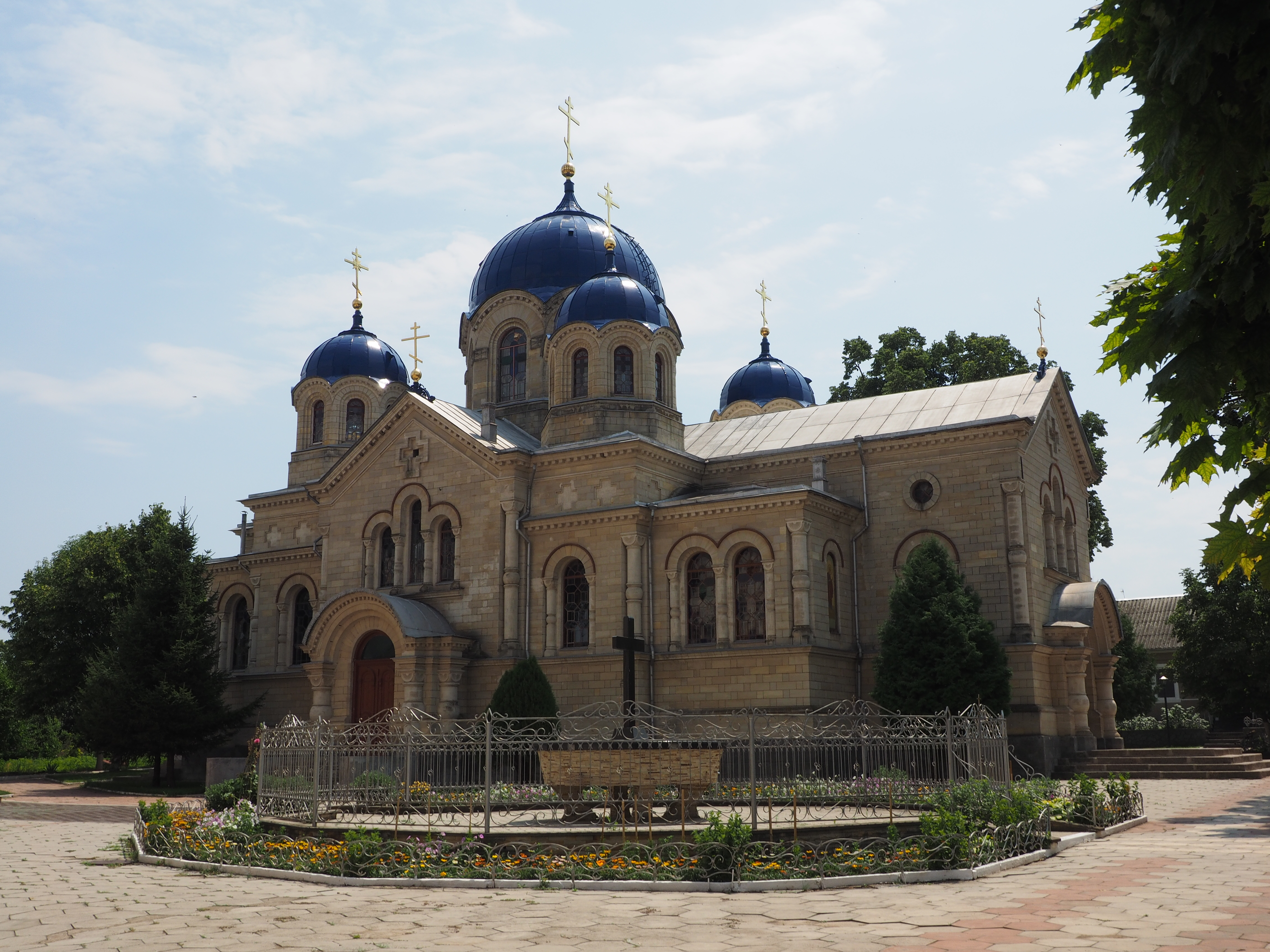 Noul Neamts monastery is located 5 km from Tiraspol city in the village of Chitcani.